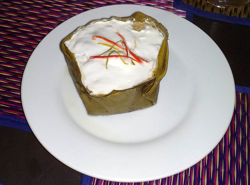 Cambodian Fish Amok